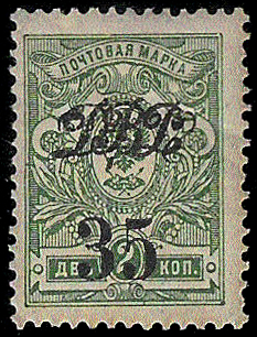 Russia Far Eastern Republic 1921, DVR monogram overprint issue (Dalne-Vostochnaya Respublika).